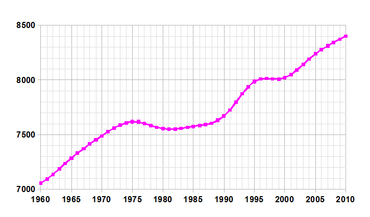 Subject : Austria's population (1961-2010). Y-axis : Number of inhabitants in thousands.